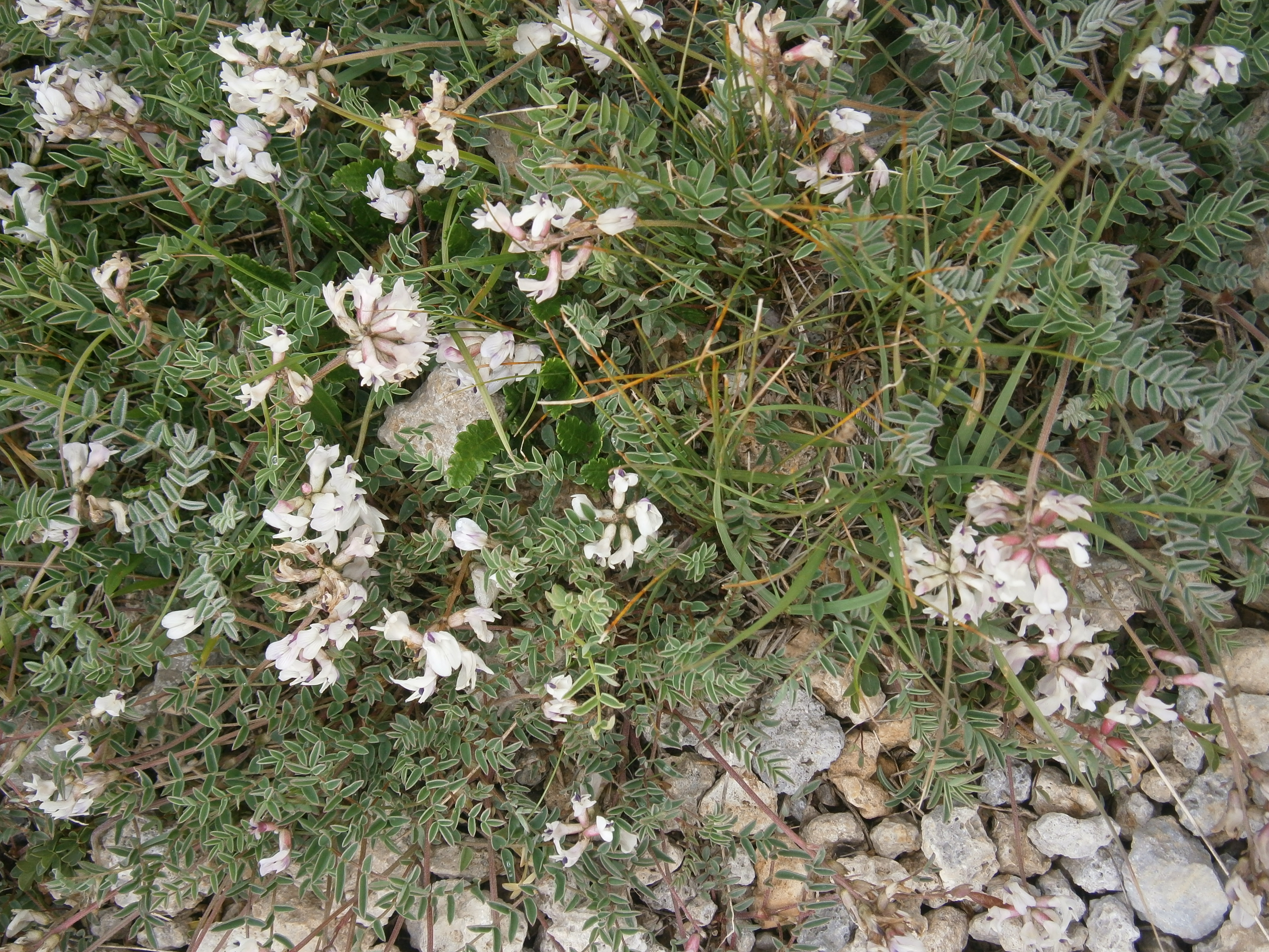 Astragalus australis